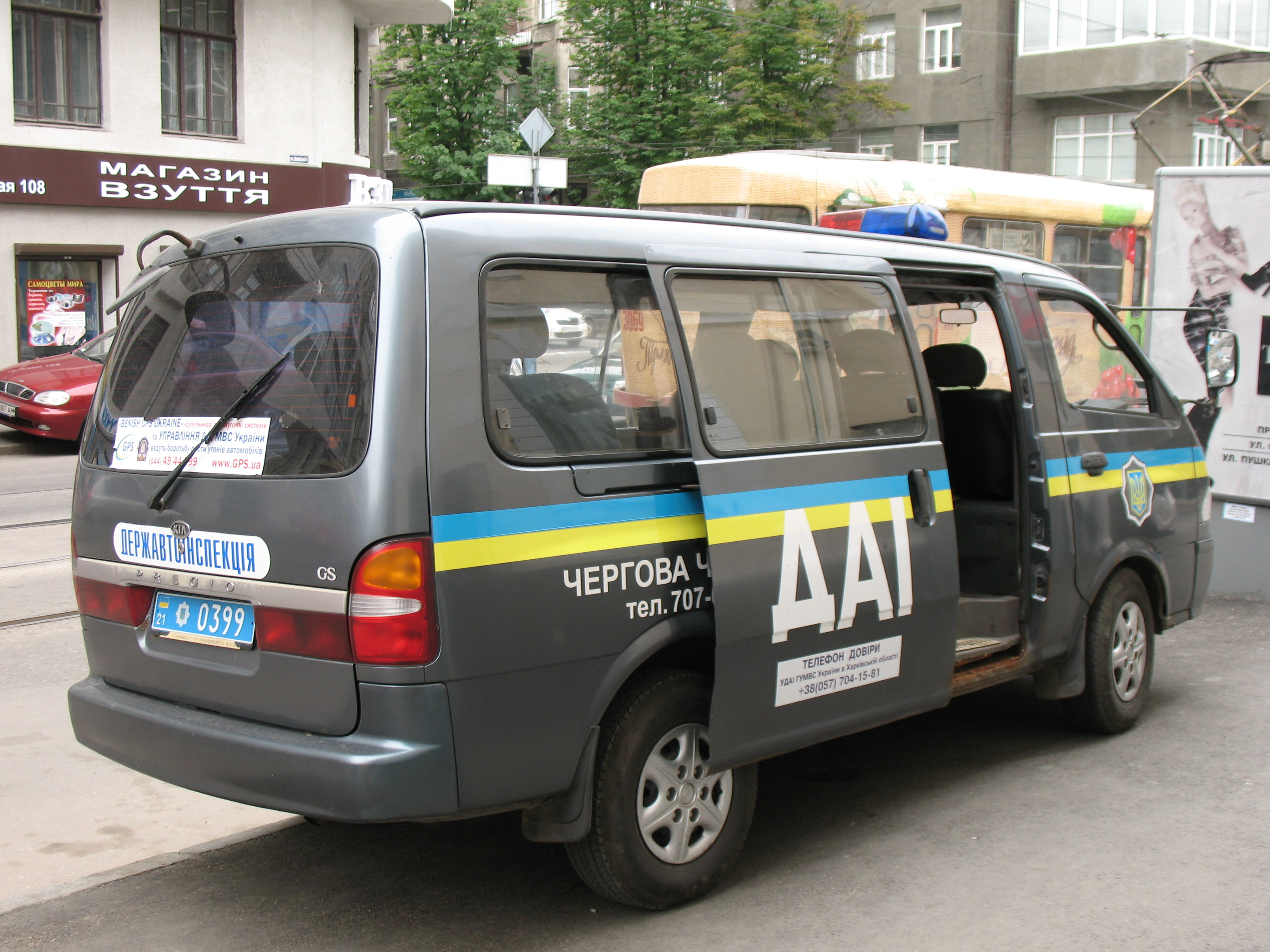 GAI Kharkov.